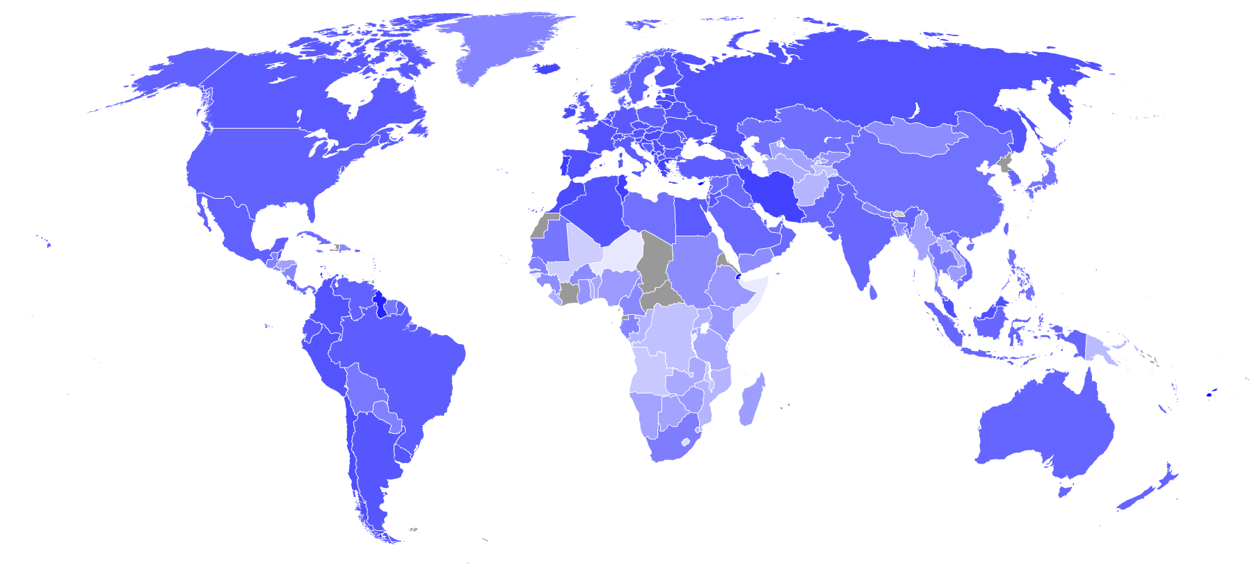 This map was created with GunnMapGunnMap was created by Arthur Gunn and is available, free, at and attribute by linking to Based off data available at Adjusted for population according to statistics by